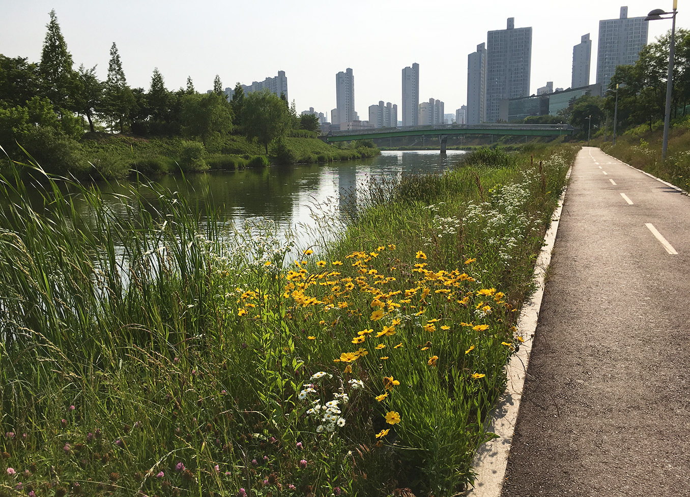 The bicycle and walking path along the canal in Ansan, Korea